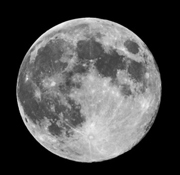 Full moon (“blue moon”) as seen on 31.08.2012 as seen from Slobozia, Romania.